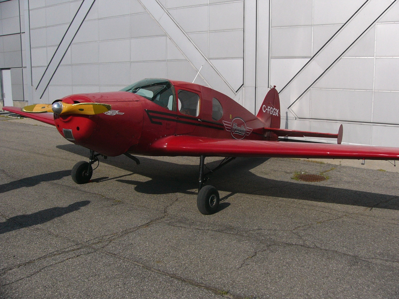 Bellanca 14-13-2 Cruiseair